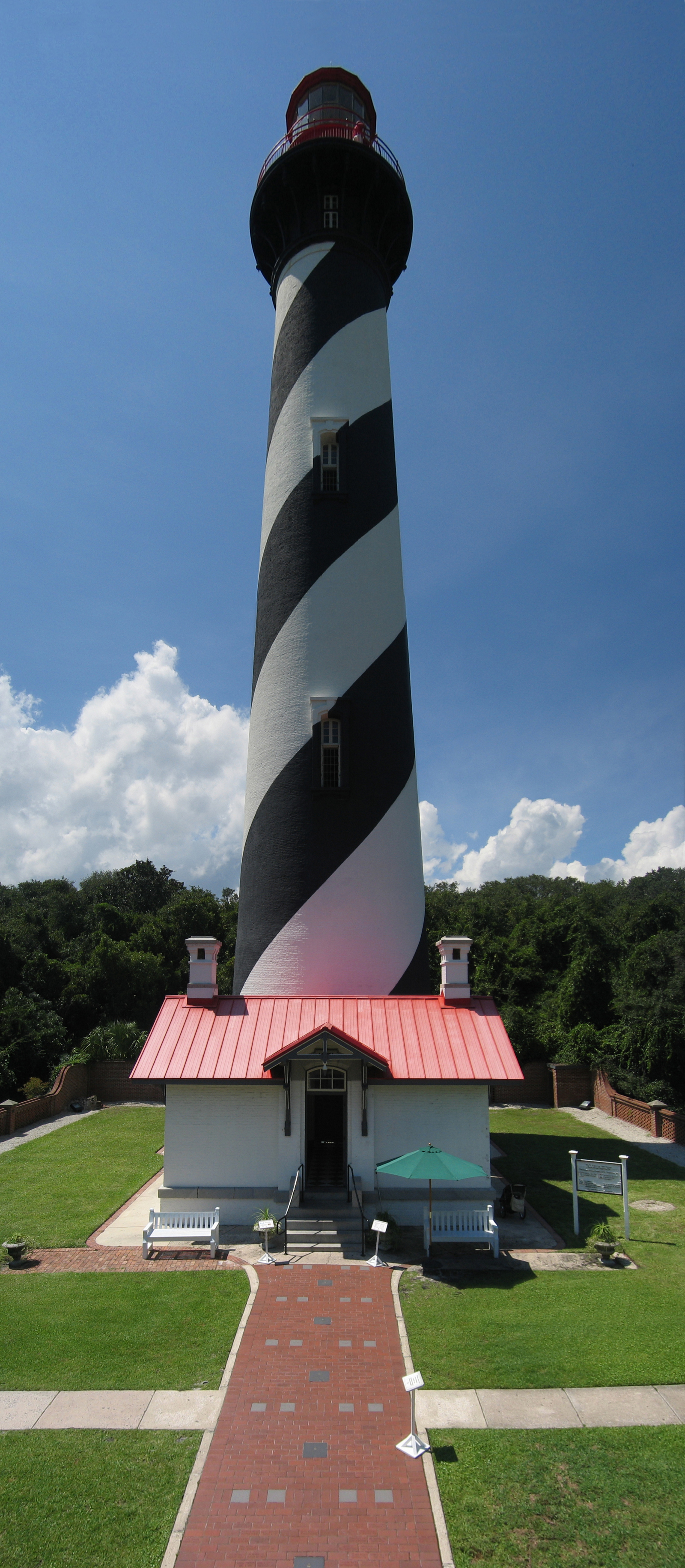 Panorama of the St. Augustine Lighthouse in St. Augustine, Florida, USA.